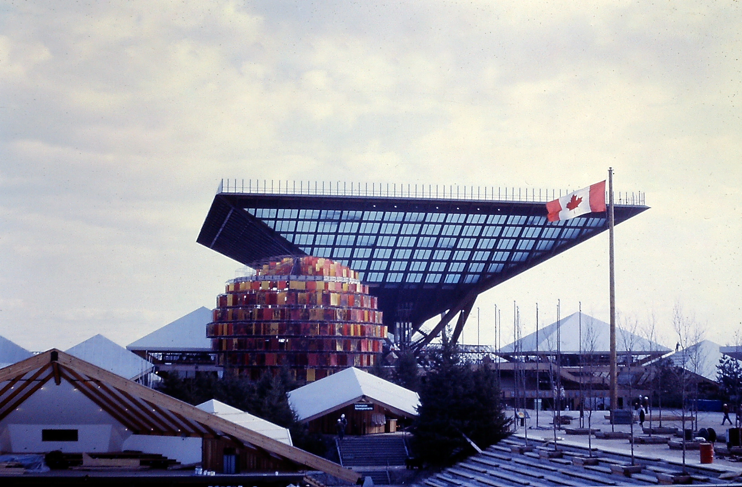 Canada Pavilion at Universal Exposition of 1967, Montreal, Quebec, Canada